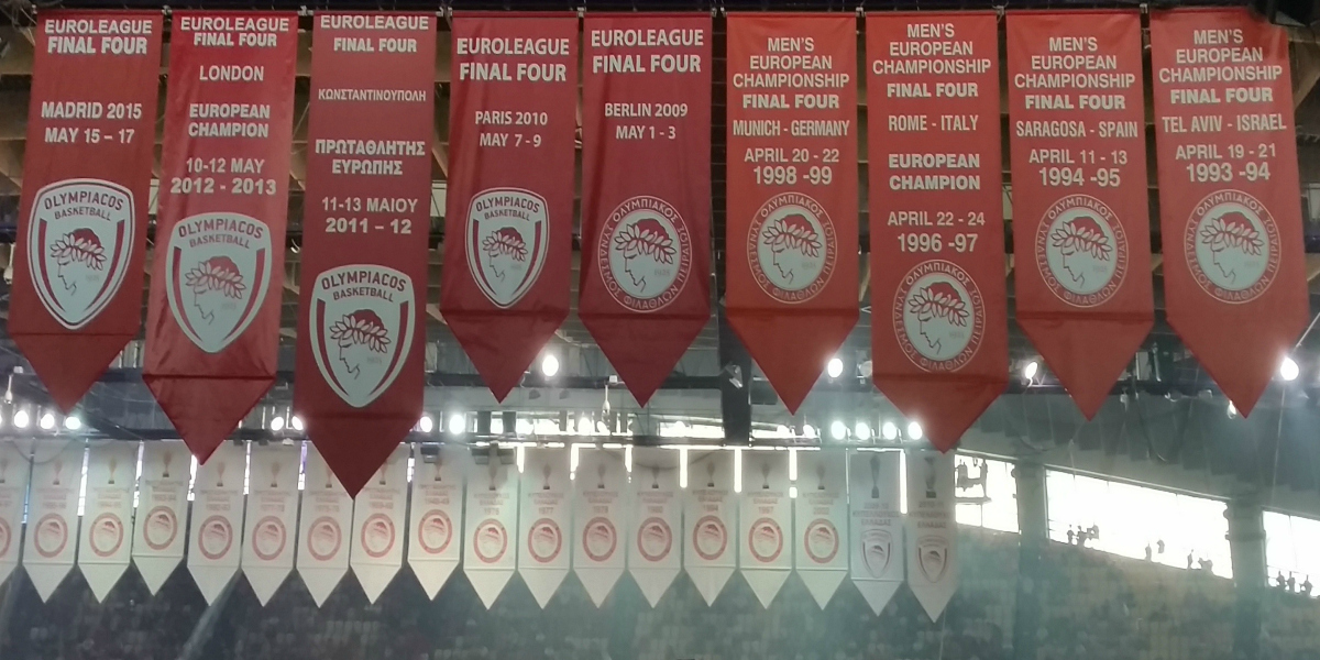 Olympiacos B.C. European banners (3 Euroleague Championships, 7 Euroleague Finals, 9 Euroleague Final Fours) before Olympiacos' 3–0 sweep against Panathinaikos in the 3rd Greek Championship Final game (93–74) in SEF (14/06/2015)